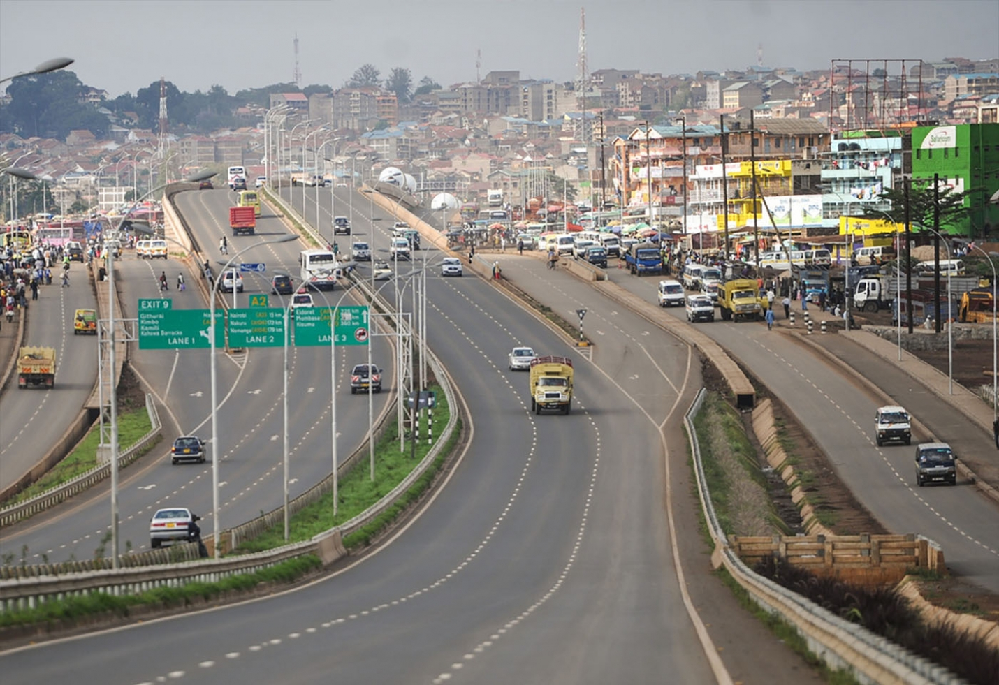 A shot of Githurai shopping centre take from Thika road.